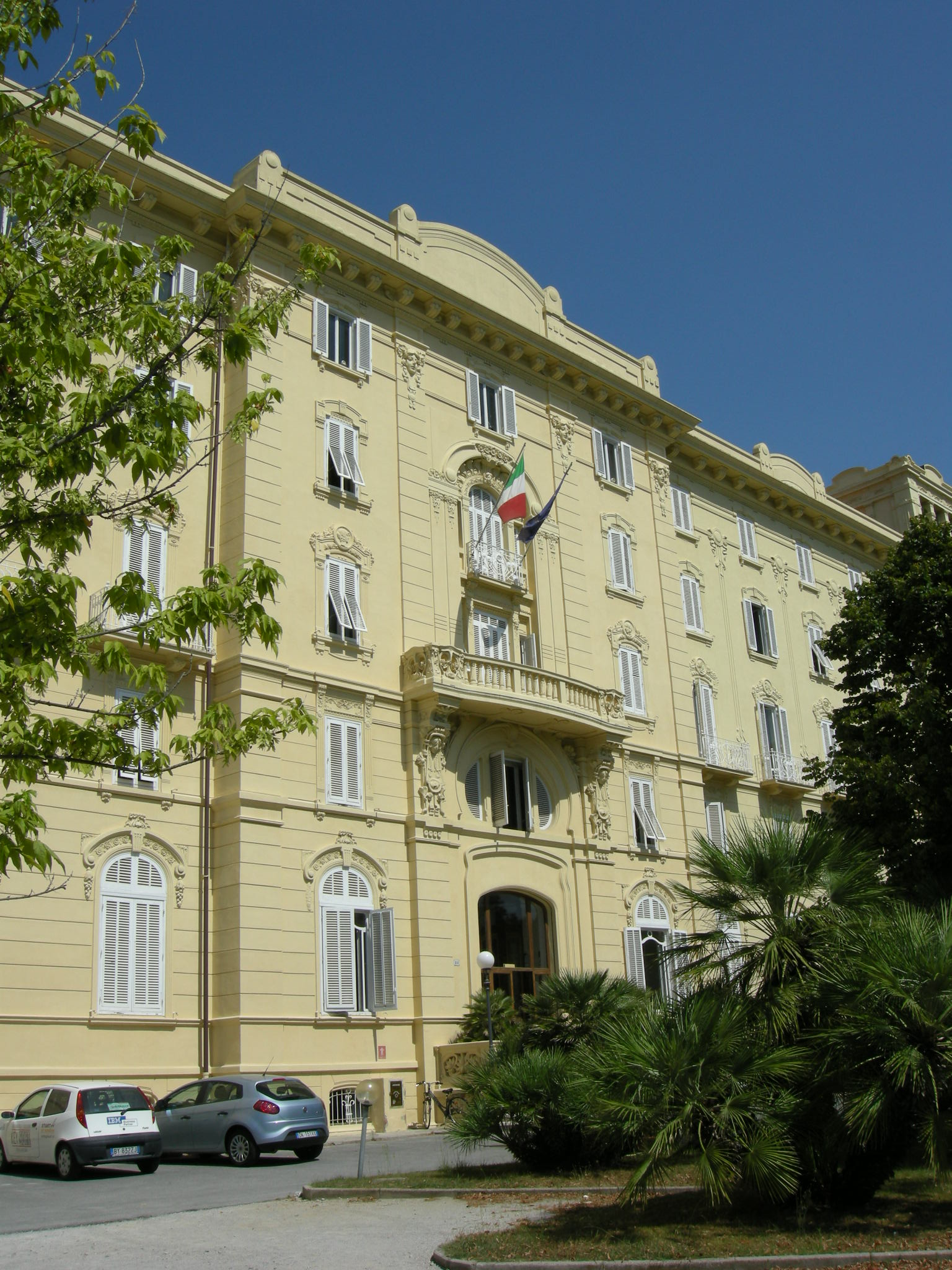 Grand hotel corallo